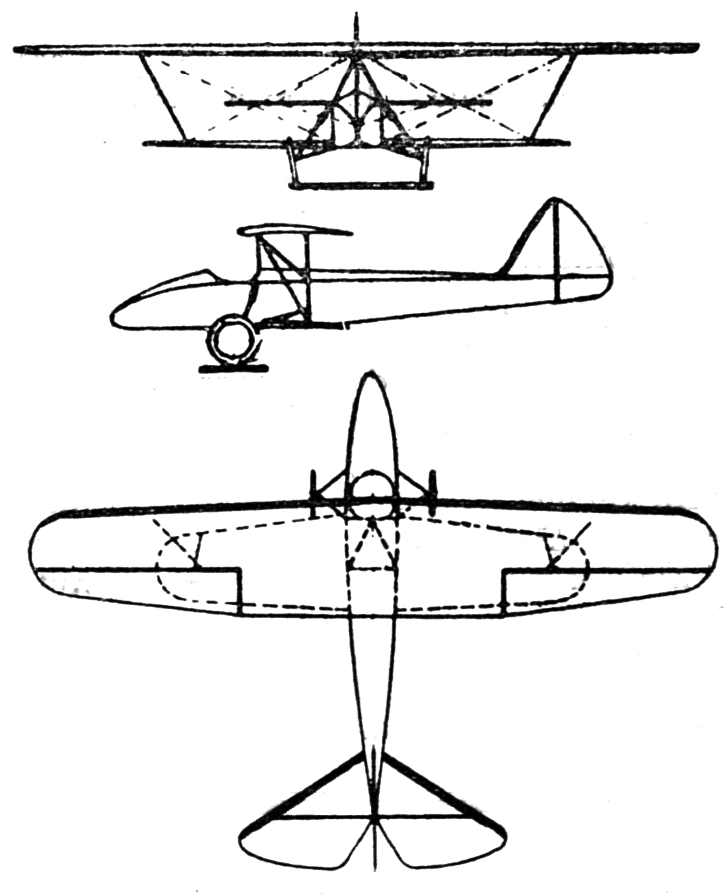 Raab-Katzenstein RK 7 3-view drawing from Le Document aéronautique September,1927